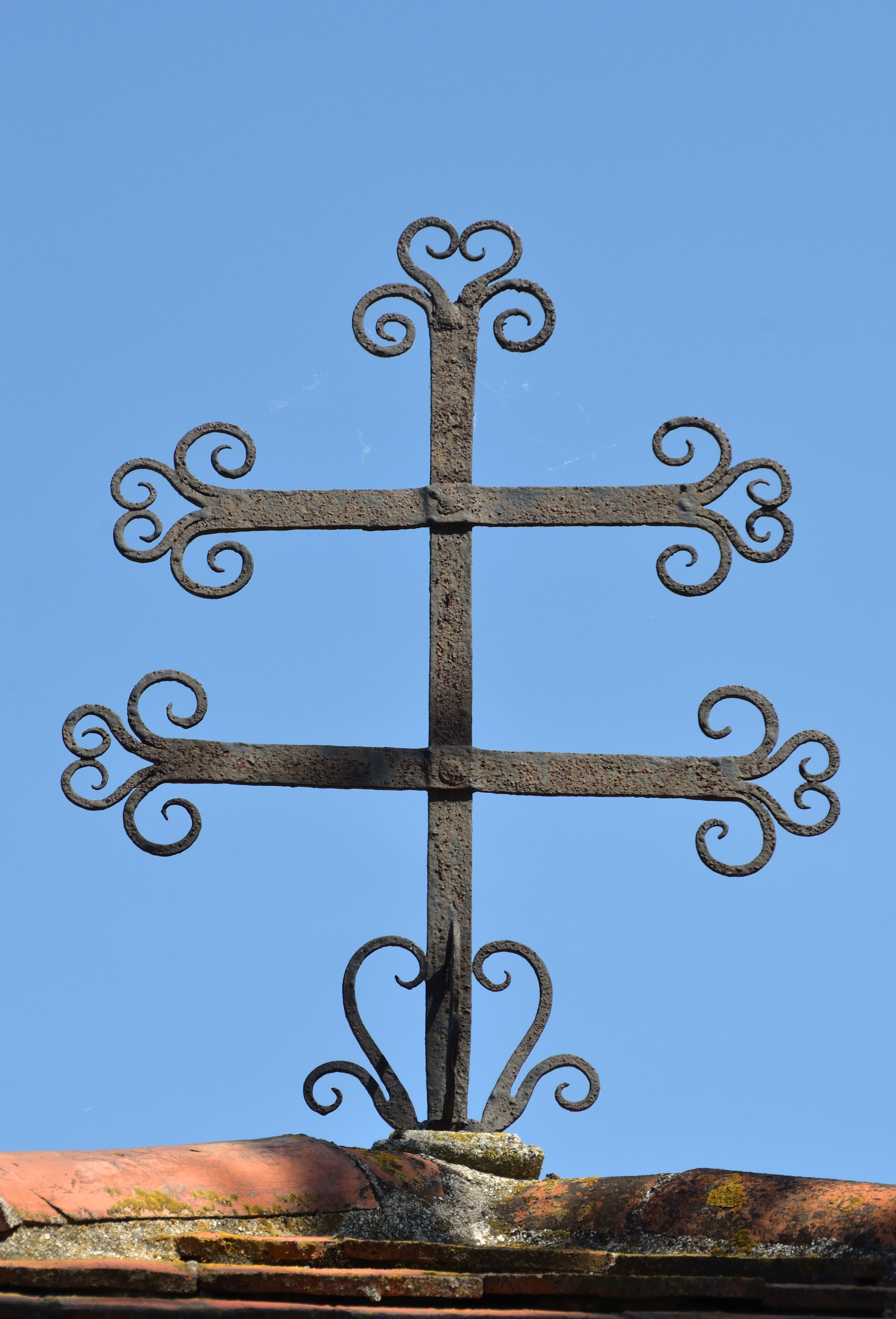 The wayside shrine Annakreuz at Walpersdorf, municipality of Inzersdorf-Getzersdorf, Lower Austria, is protected as a cultural heritage monument. It was erected after being saved from lightning.